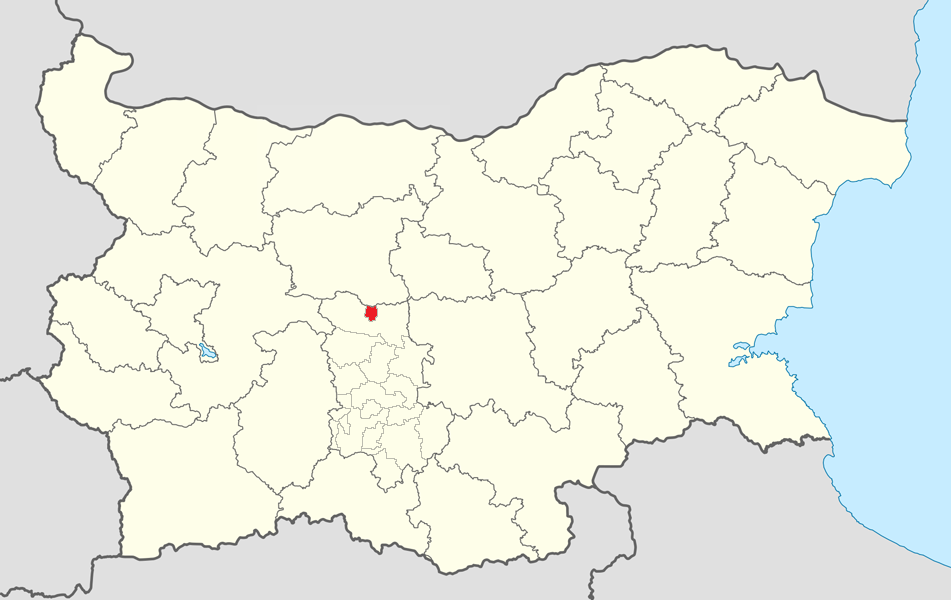 Location map of Sopot Municipality within Bulgaria and Plovdiv province